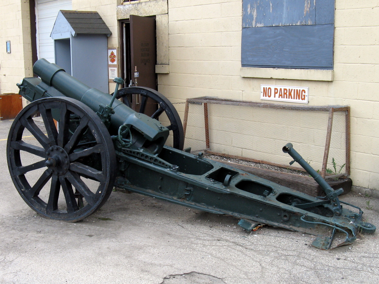 German 15 cm sFH 02 howitzer at Canadian Military Heritage Museum in Brantford, Ontario